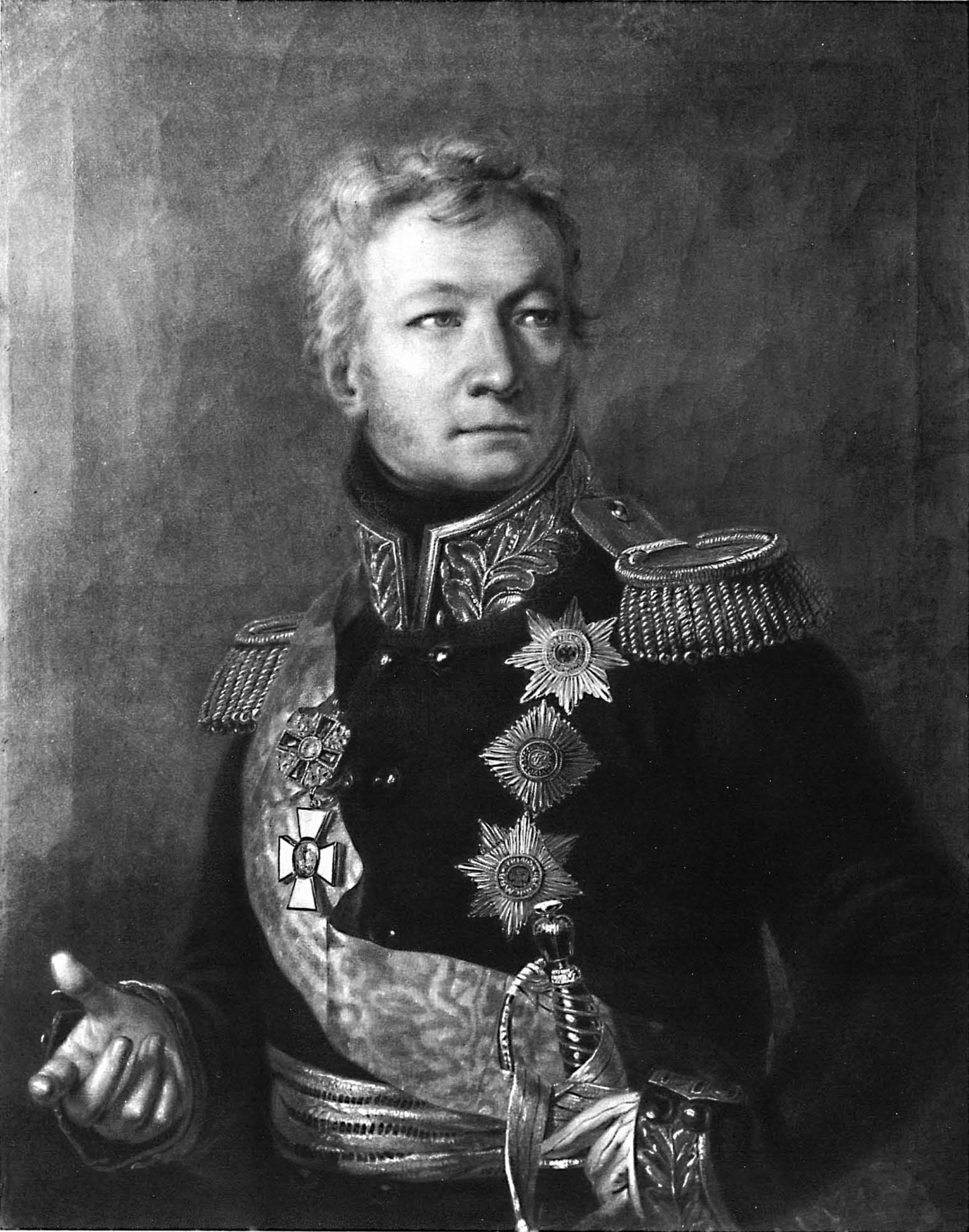 Portrait of Alexander P. Tormasov (1752-1819)